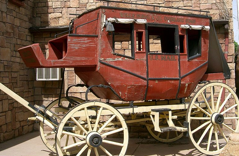 This is a picture of a stagecoach, similar to those used in Livermore CA in the 1800's.